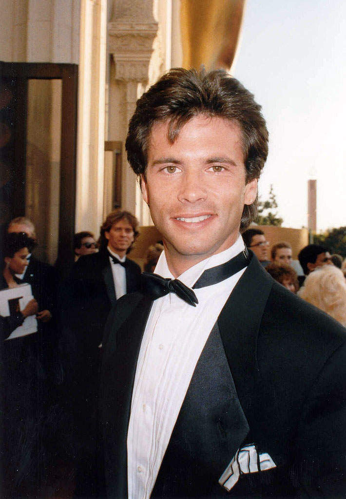 Lorenzo Lamas at the 61st Academy Awards